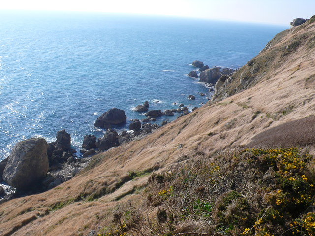 Cliffs and coast below Dungy Head Most of this square is sea. The small part that is land in the NE corner is mainly cliffs with a small path along the top. This view WSW is from the extreme NE corner of the grid square, just W of Stair Hole